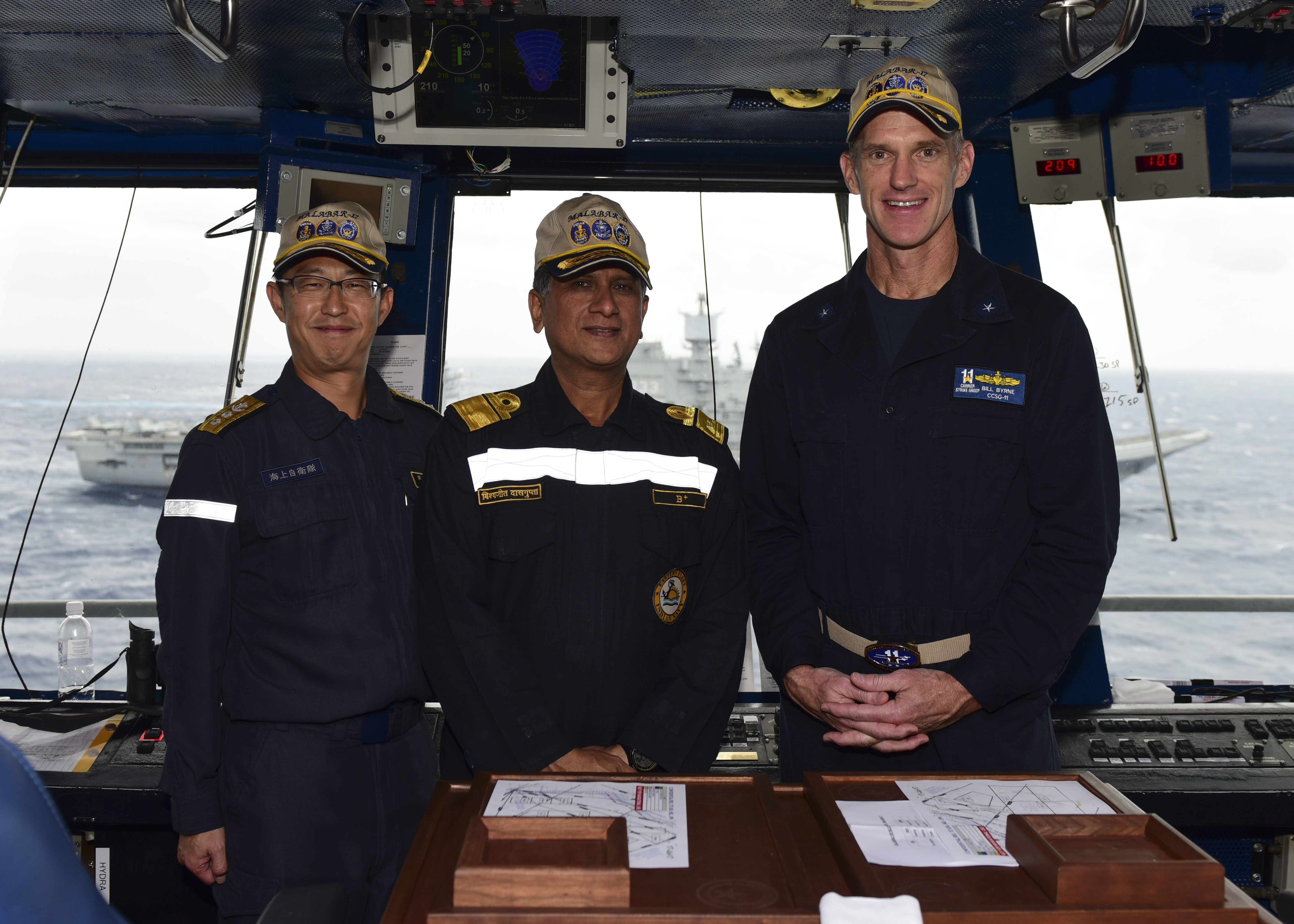 BAY OF BENGAL (July 17, 2017) Japan Maritime Self-Defense Force (JMSDF) Rear Admiral Yoshihiro Goka, commander of Escort Flotilla One, left, Indian Navy Rear Admiral Biswajit Dasgupta, flag officer commanding Eastern Fleet, middle, and U.S. Navy Rear Adm. Bill Byrne, commander of Carrier Strike Group 11, pose for a photo in primary flight control aboard the aircraft carrier USS Nimitz (CVN 68) during a formation sail as part of the conclusion of Exercise Malabar 2017, July 17, 2017 in the Bay of Bengal. Malabar 2017 is the latest in a continuing series of exercises between the Indian Navy, JMSDF and U.S. Navy that has grown in scope and complexity over the years to address the variety of shared threats to maritime security in the Indo-Asia-Pacific region. (U.S. Navy photo by Mass Communication Specialist 2nd Class Holly L. Herline)